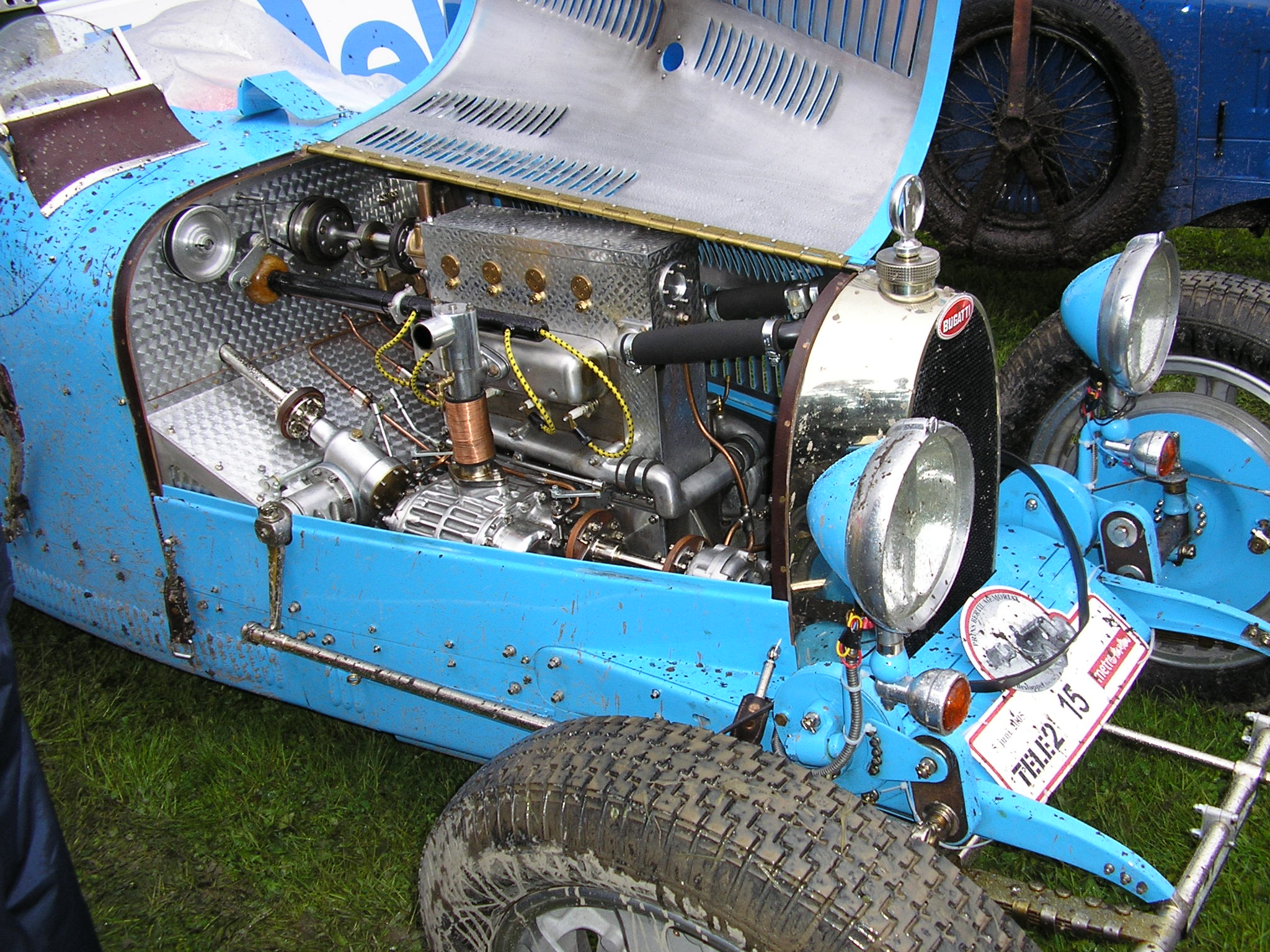 The engine bay of a 1929 Bugatti T 37 A. Photographed by myself at Prins Bertil Memorial in Stockholm, Sweden.